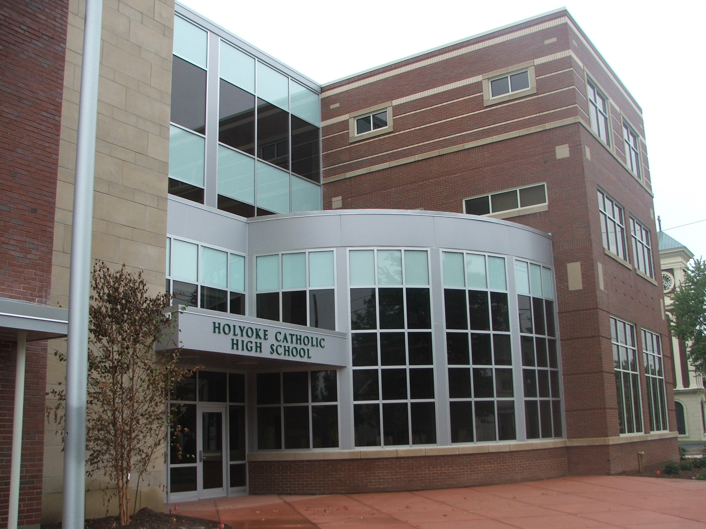 Holyoke Catholic High School in Chicopee, Mass.